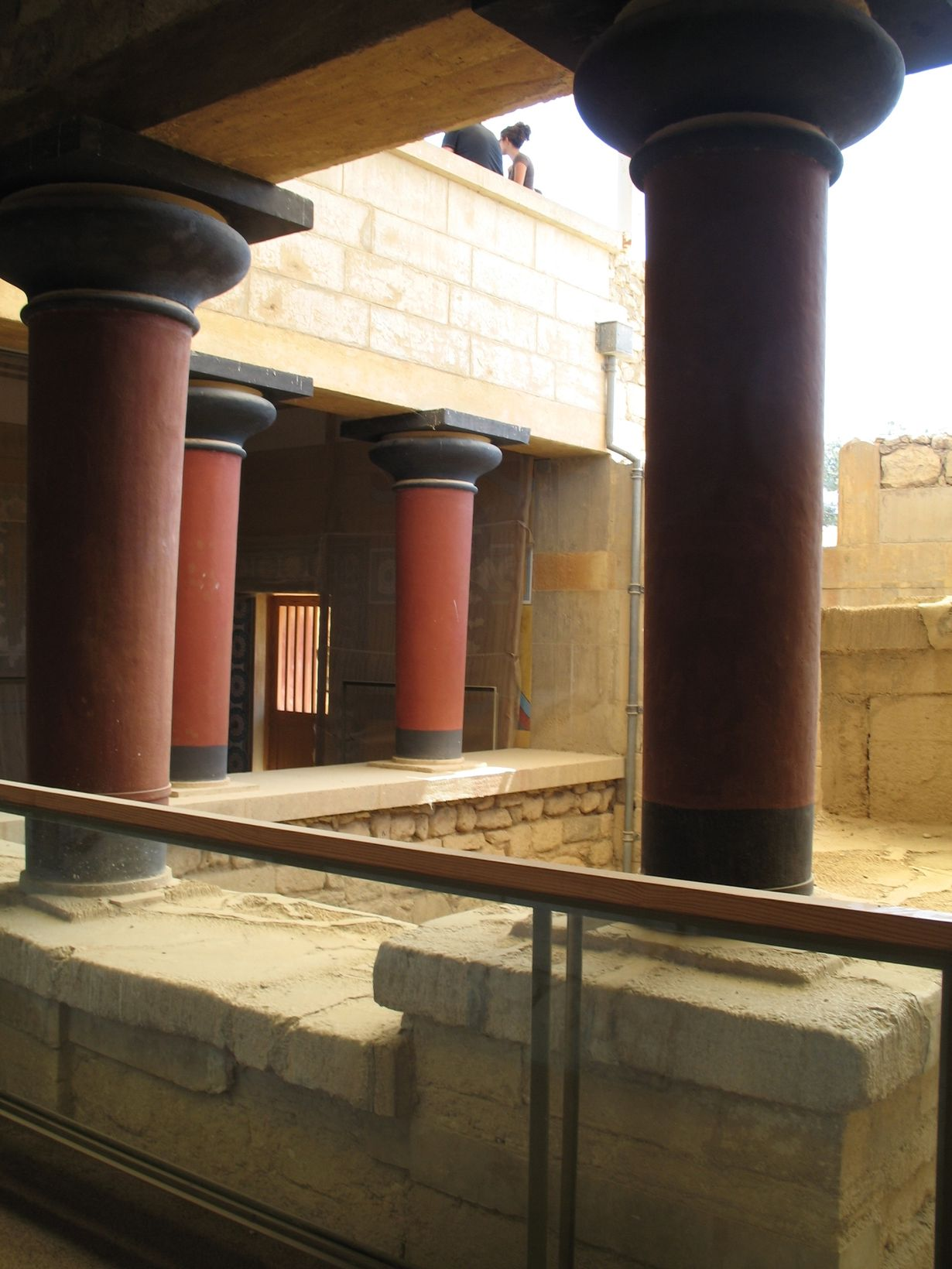 Кносский дворец